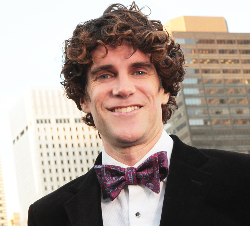 Manners and lifestyle expert Thomas P. Farley (a.k.a. "Mister Manners"), photographed in New York City July 2012.